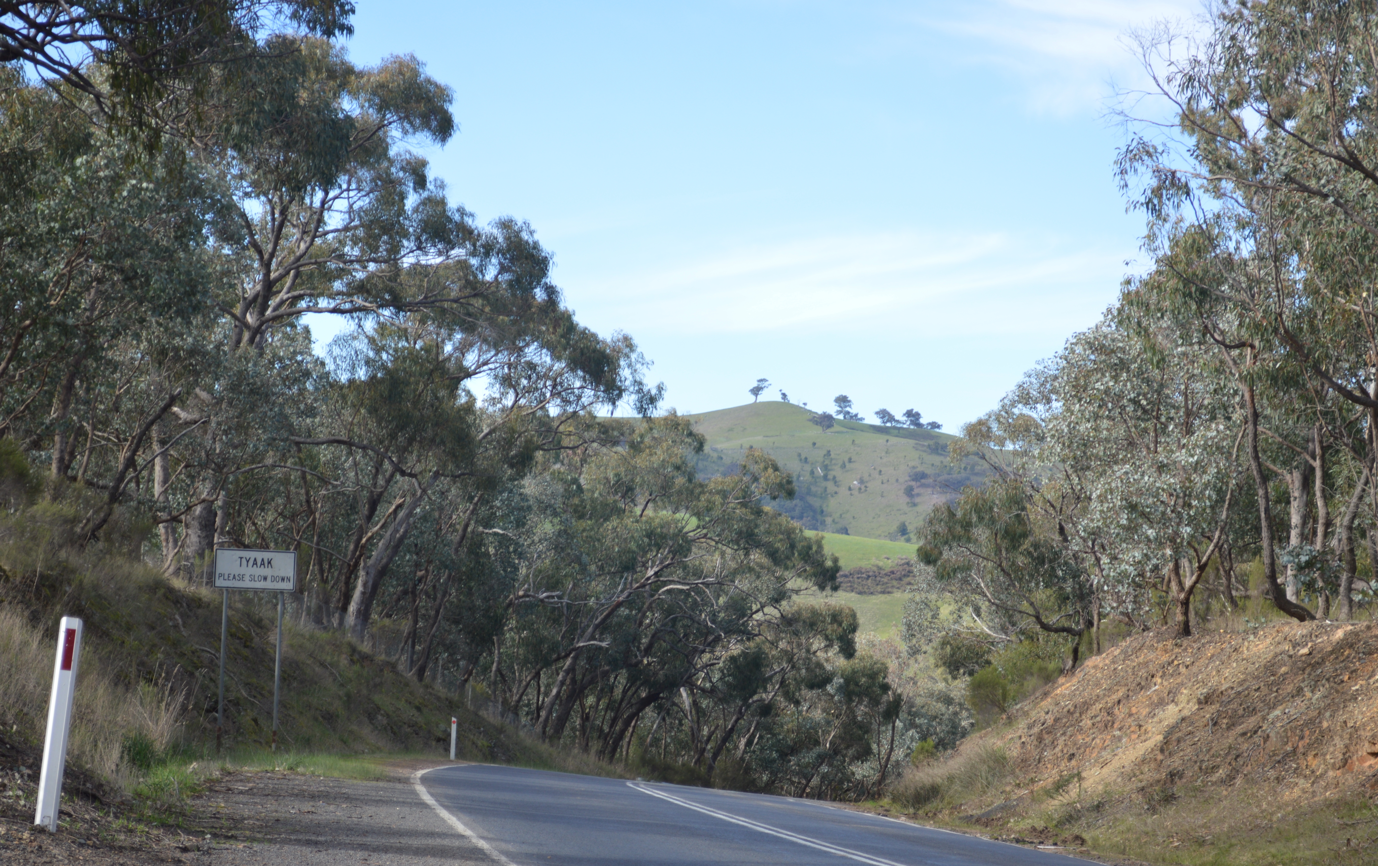 Town entry sign at Tyaak, Victoria